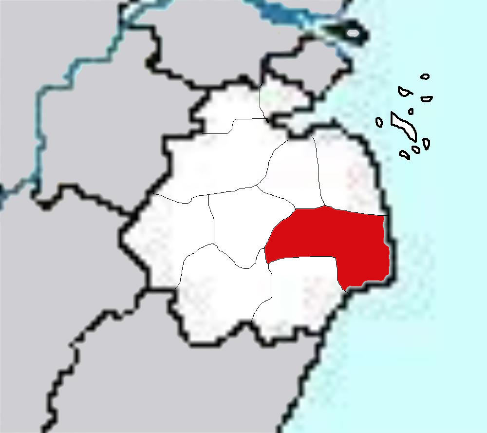 Maps of Zhejiang Province of China